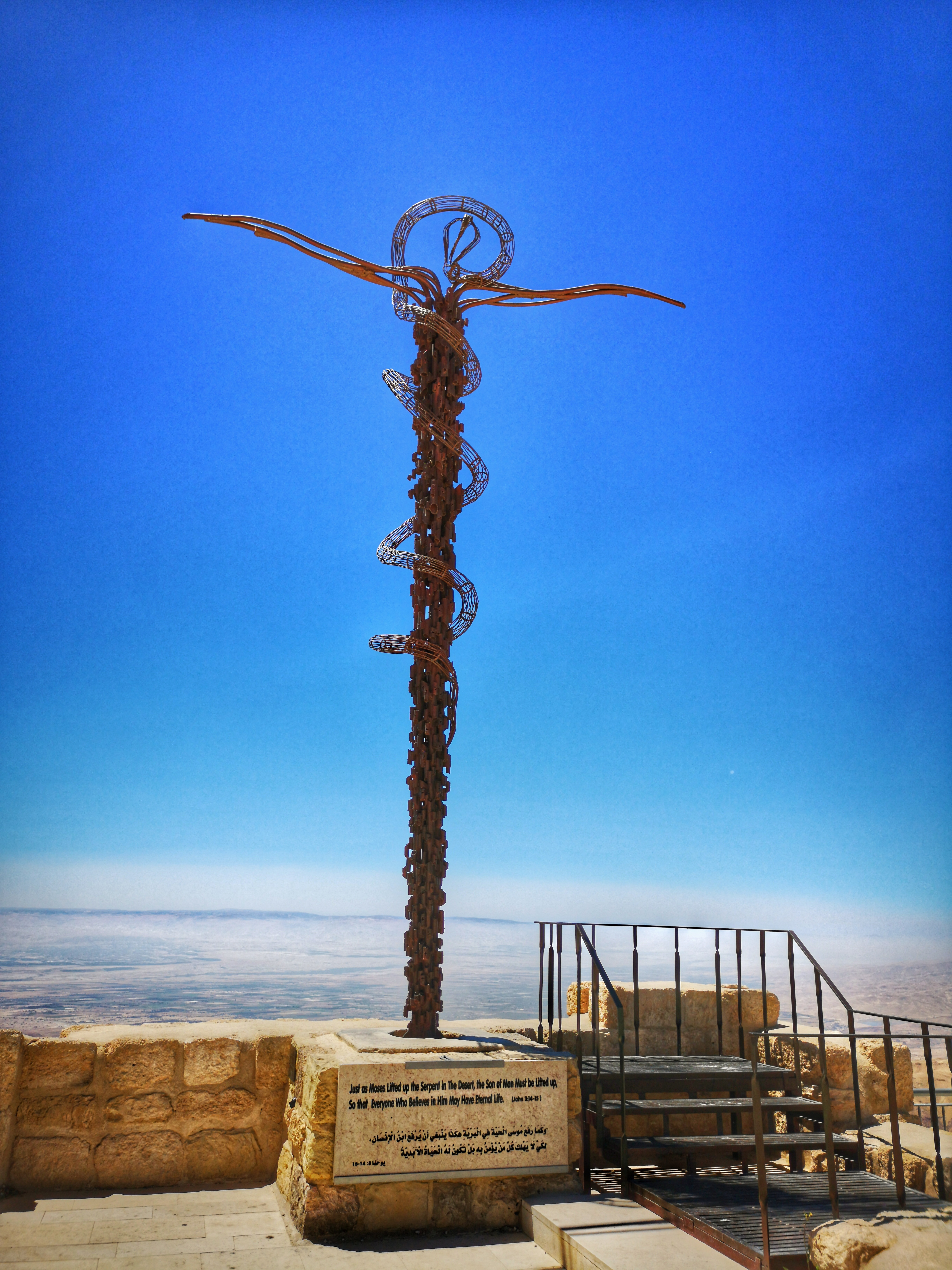 On Mount Nebo, in front of the church of Saint Moses, looking over the valley below is a monument of the bronze serpent which Moses erected in the Neghev desert according to biblical tradition.